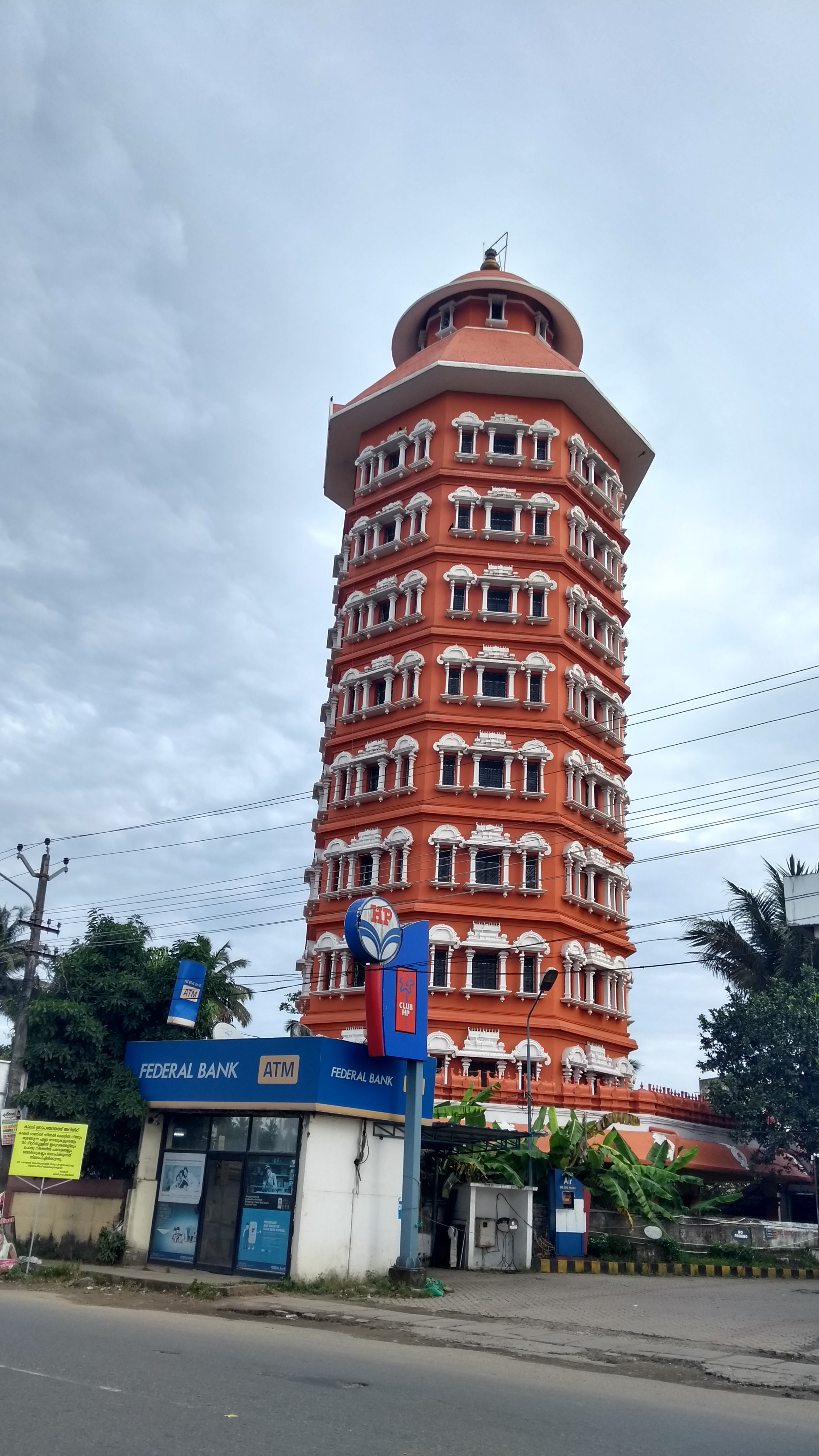 a tower from kaladi